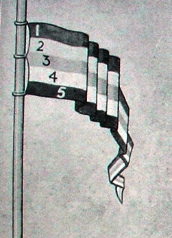 No copyright Created by Wikramadithya 02:41, 11 December 2006 (UTC)